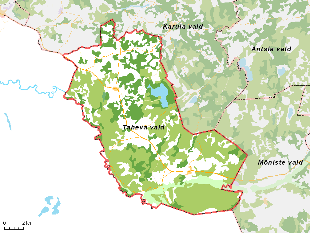 Map of municipality in Estonia